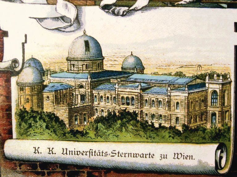 Vienna University Observatory